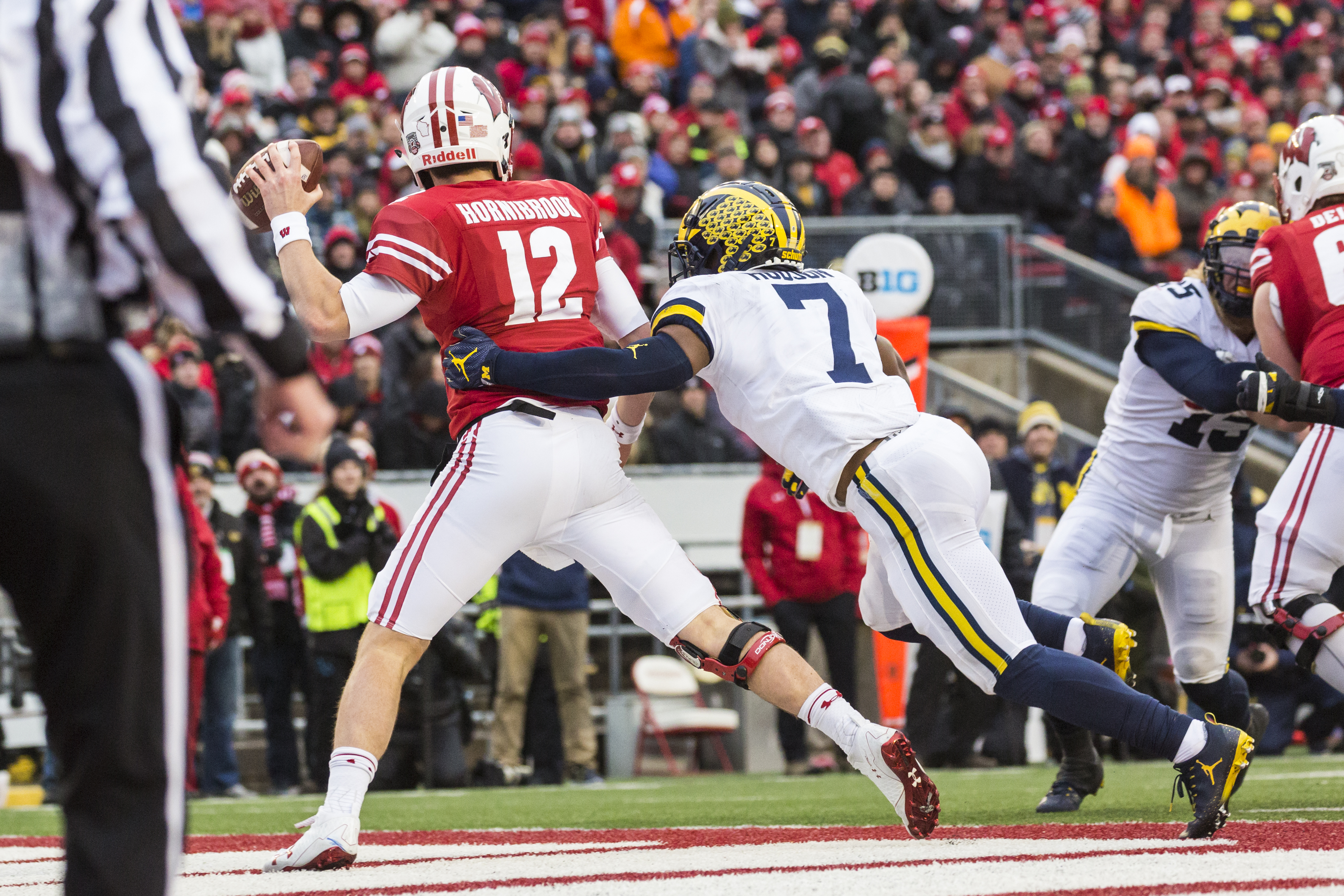 PAB_FBC_atWisconsin2017_24